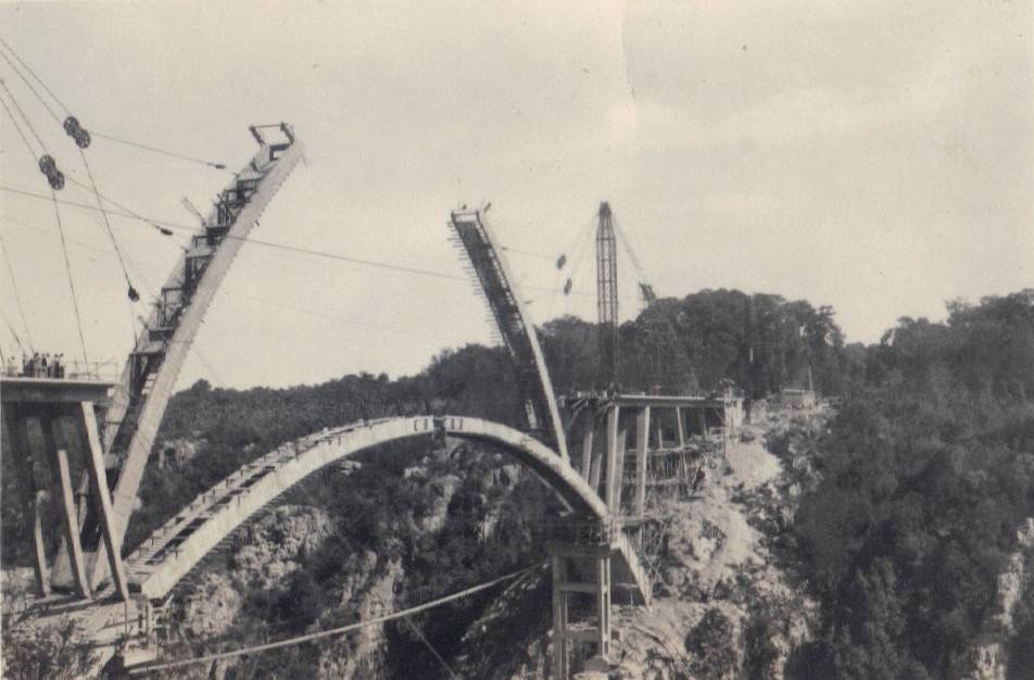 Paul Sauer Bridge, Eastern Cape, South Africa. Second pair of concrete semi-arches of bridge being lowered into position